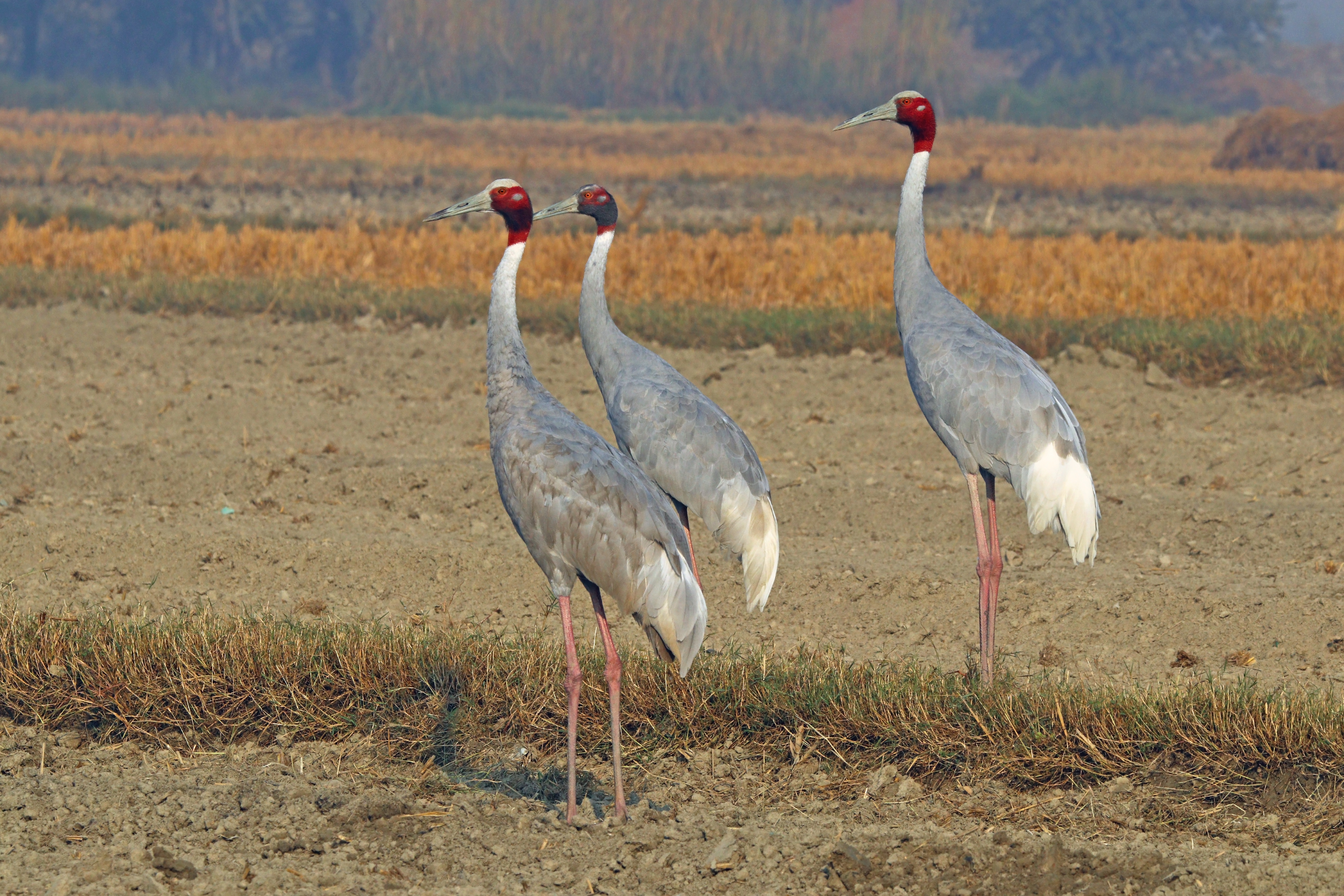 Sarus cranes (Grus antigone), Salai, UP, India